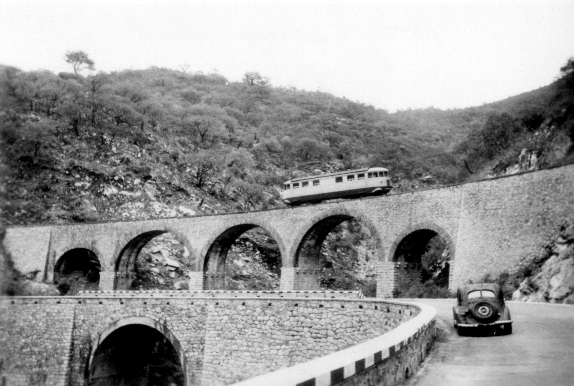 B+W photographs, Asmara Eritrea, while posted to Kagnew Station, late-1940s